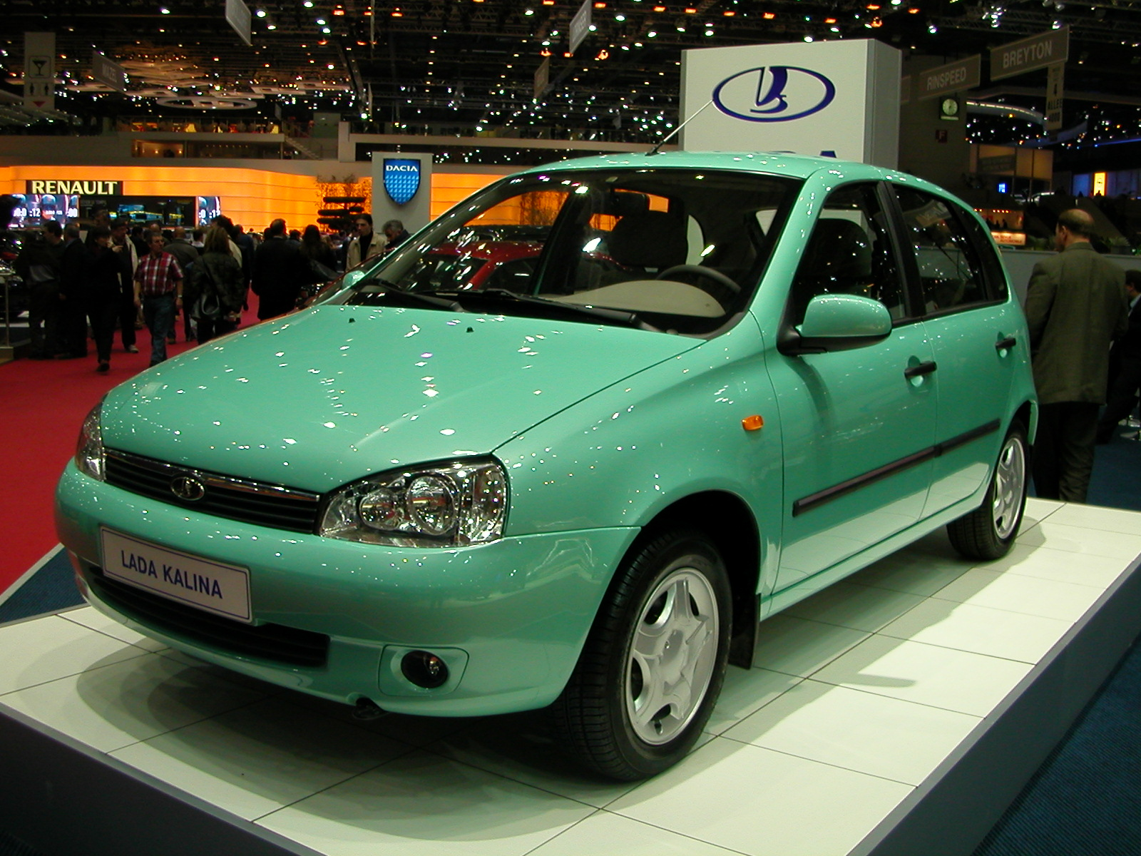 Lada 110 hatchback (VAZ 1119) in Genewa 2005